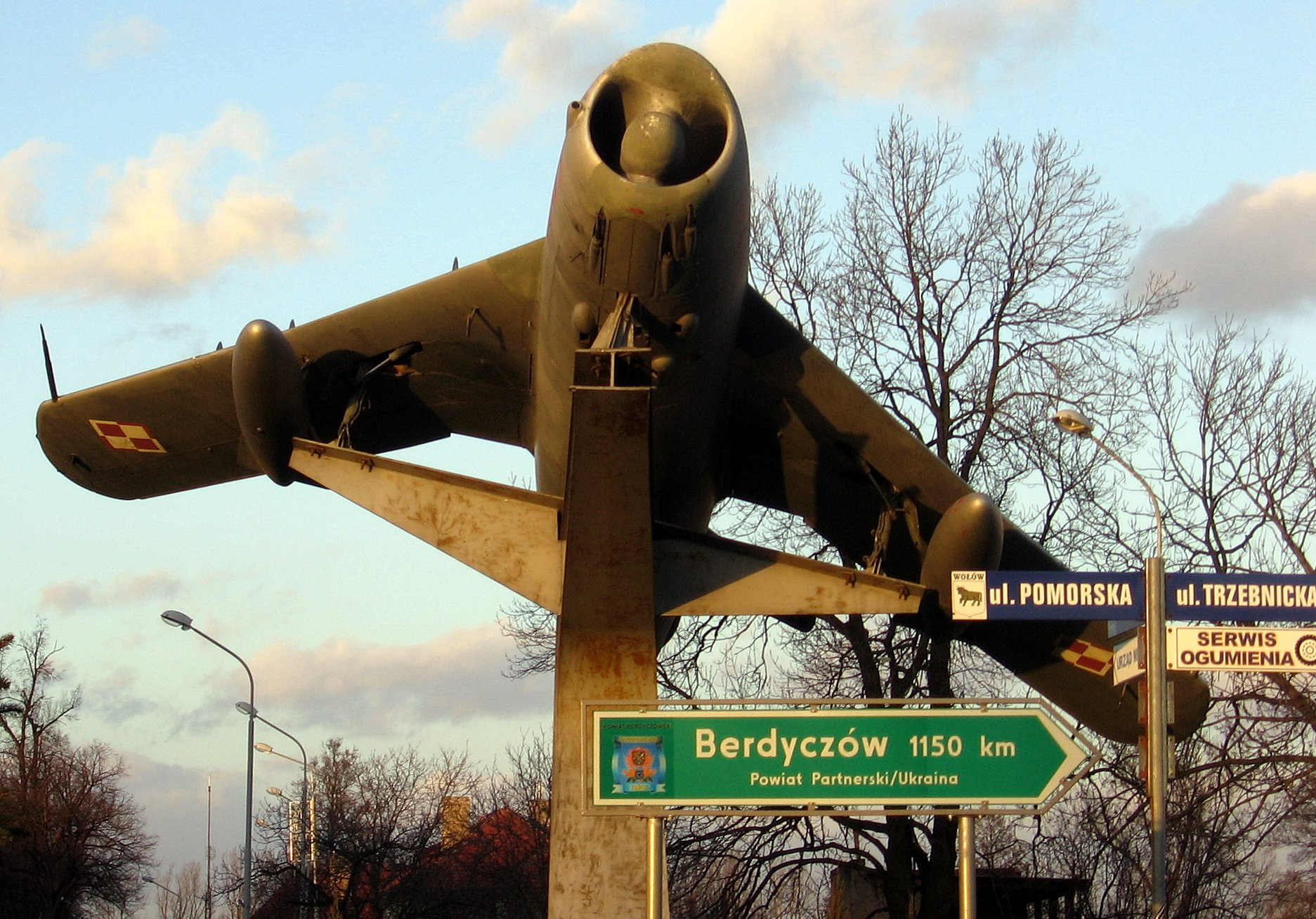 Wołów - Lim-5P (Polish-built licence MiG-17PF) fighter in the Polish Air Force markings and the guide-post to twinning town Berdyczów in Ukraine